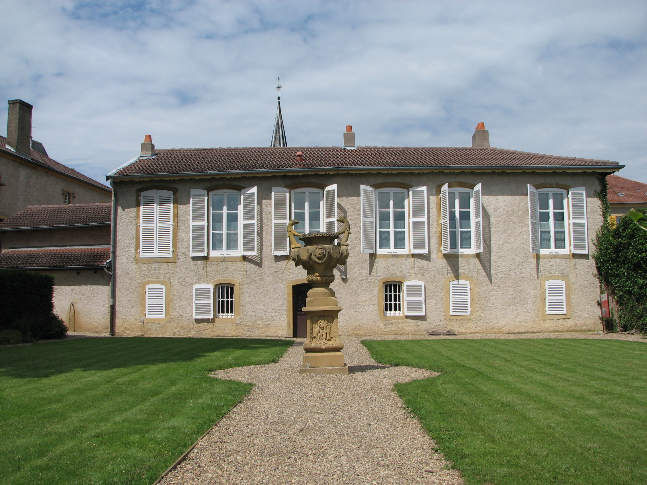 Robert Schuman house in Scy-Chazelles, near Metz, in Lorraine, France.